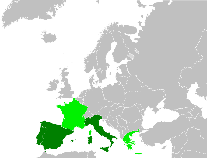 Map showing approximately the location of Southern Europe